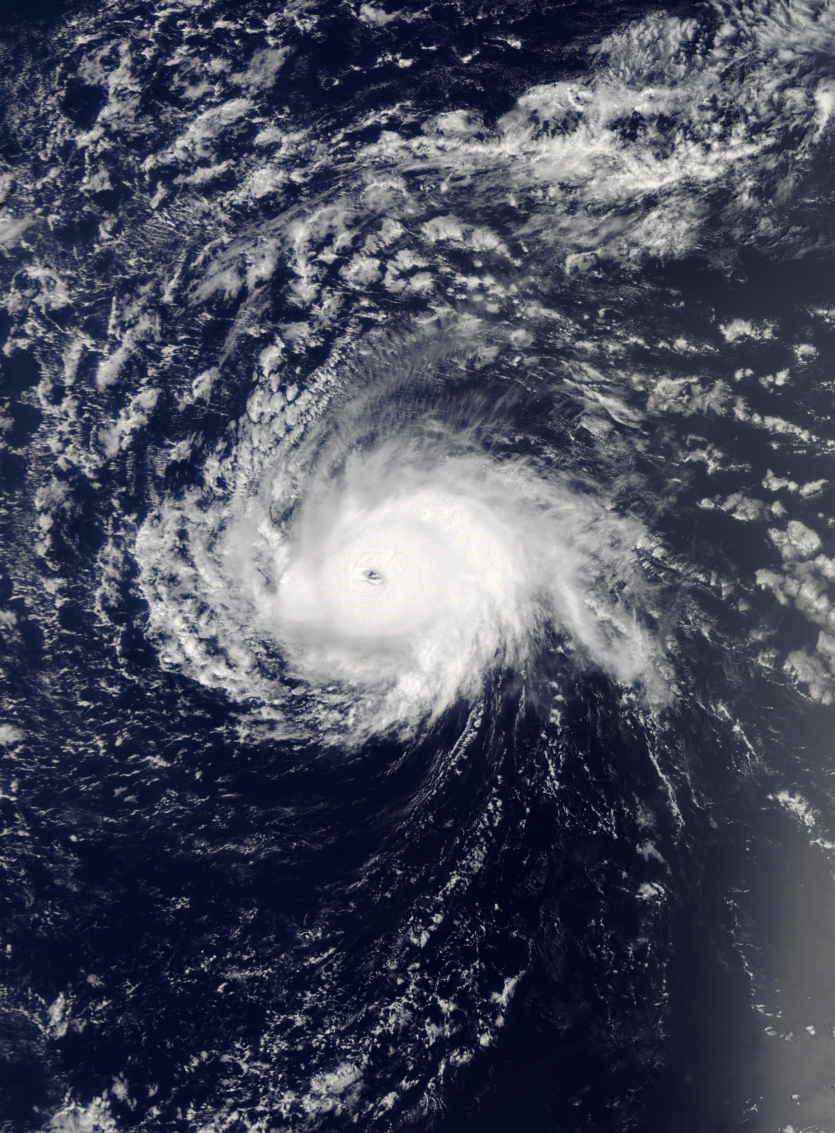 Hurricane Florence as a category 3 hurricane on September 5